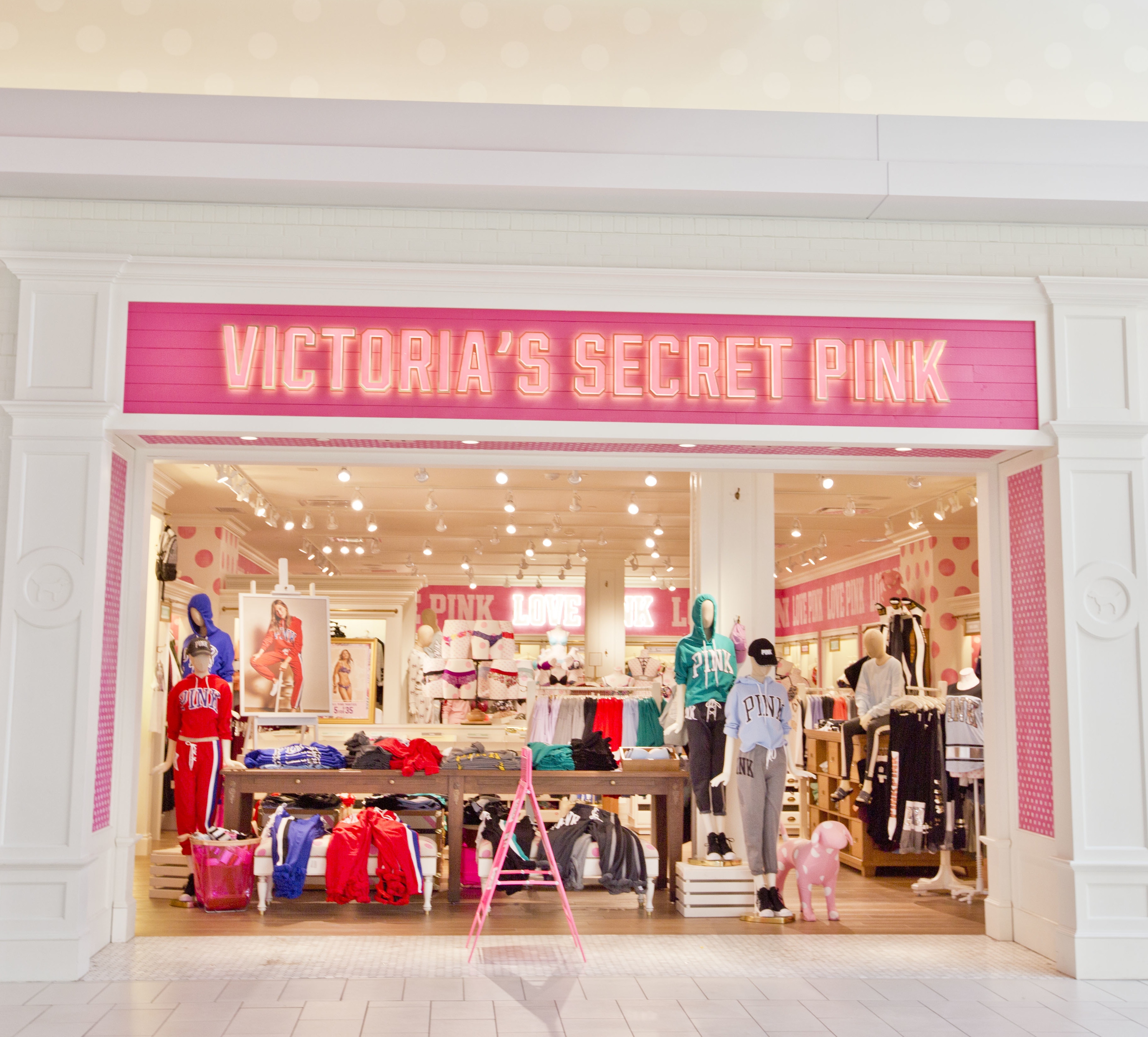 Tsawwassen Mills Outlet Shopping Mall